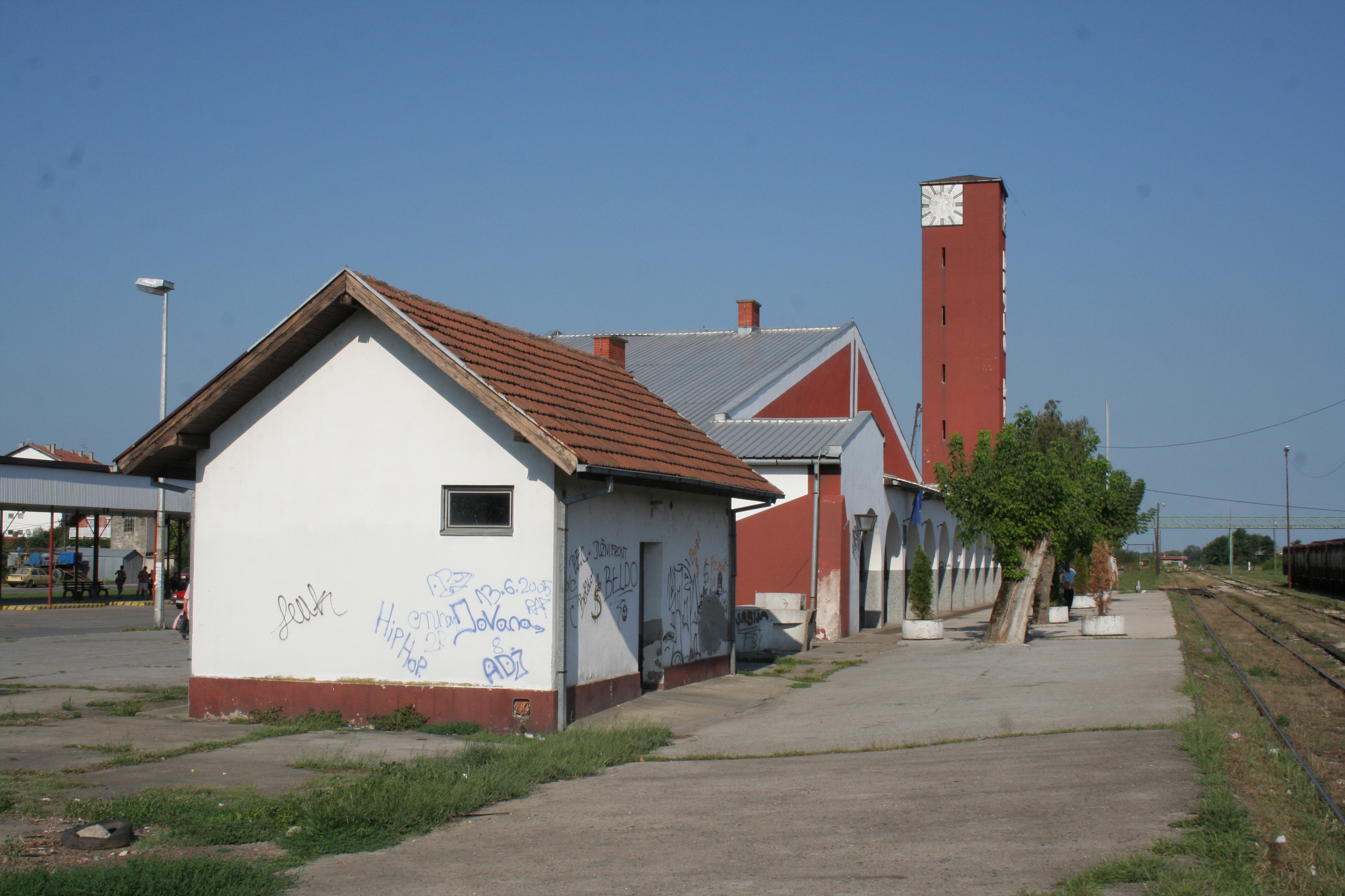 Station of Brčko